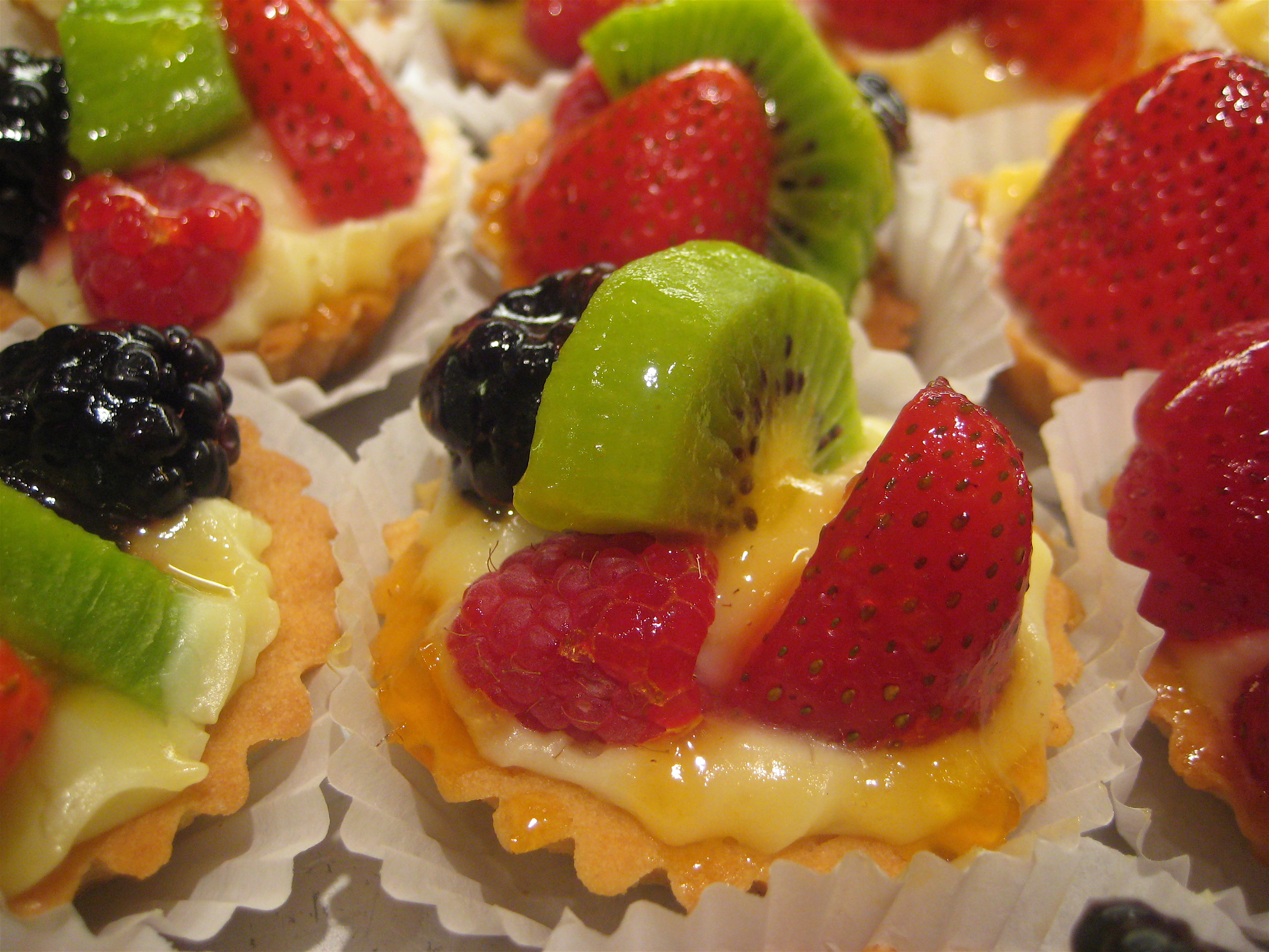 Fruit pastry with kiwi, strawberry and blackberry, Greenwich Village, 2007.